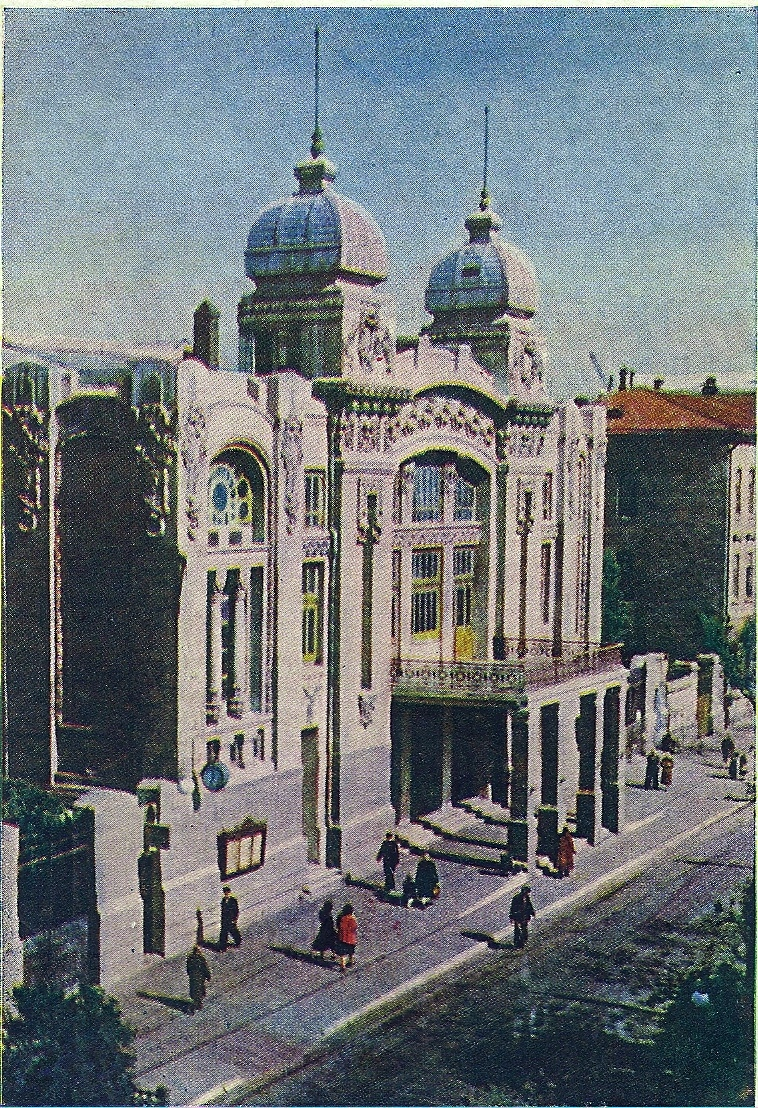 Azerbaijan State Academic Opera and Ballet Theatre